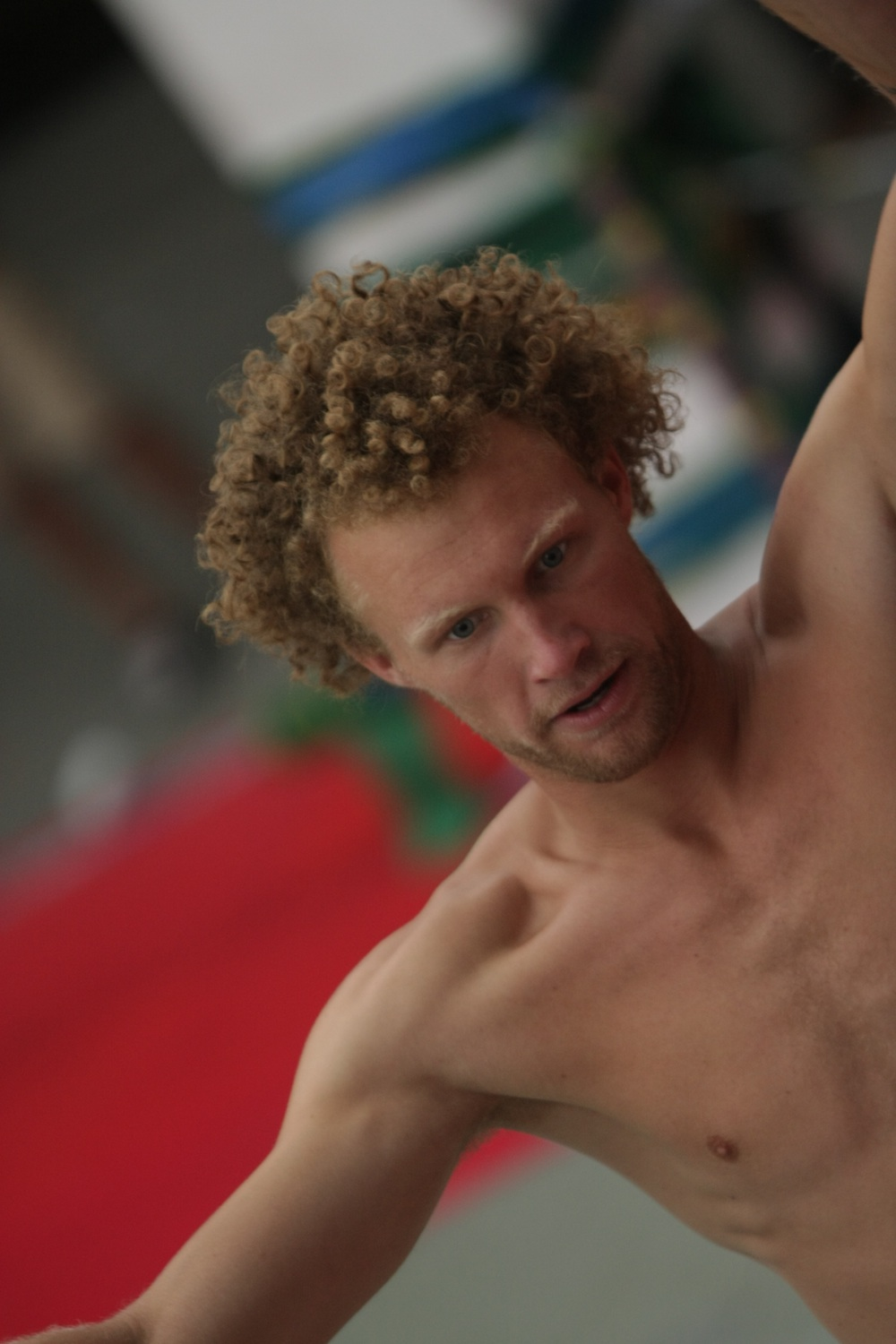 Andy Lewis at The Gibbon World Cup 2010